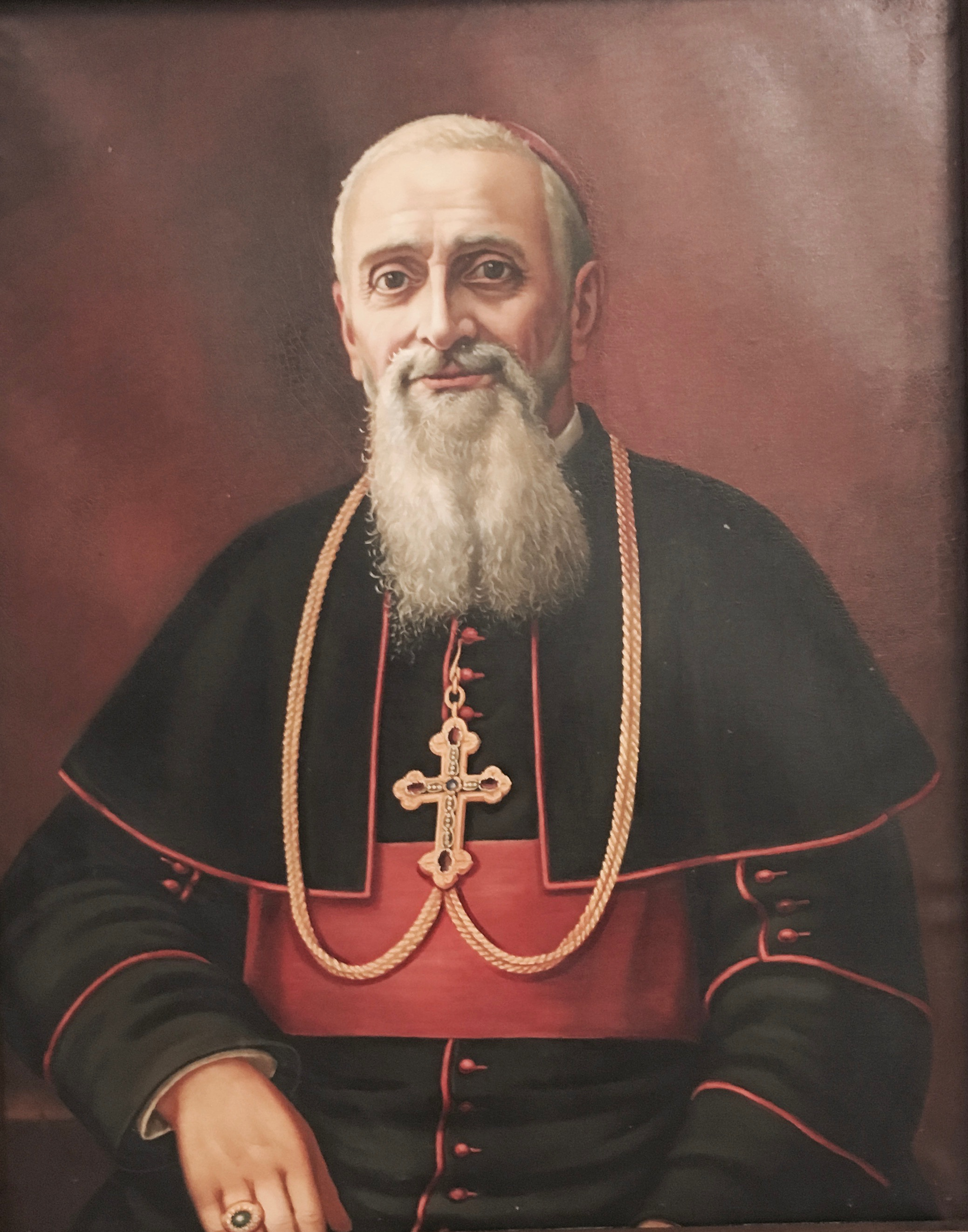 Portrait Luigi Barlassina (Latin Patriarchate of Jerusalem)